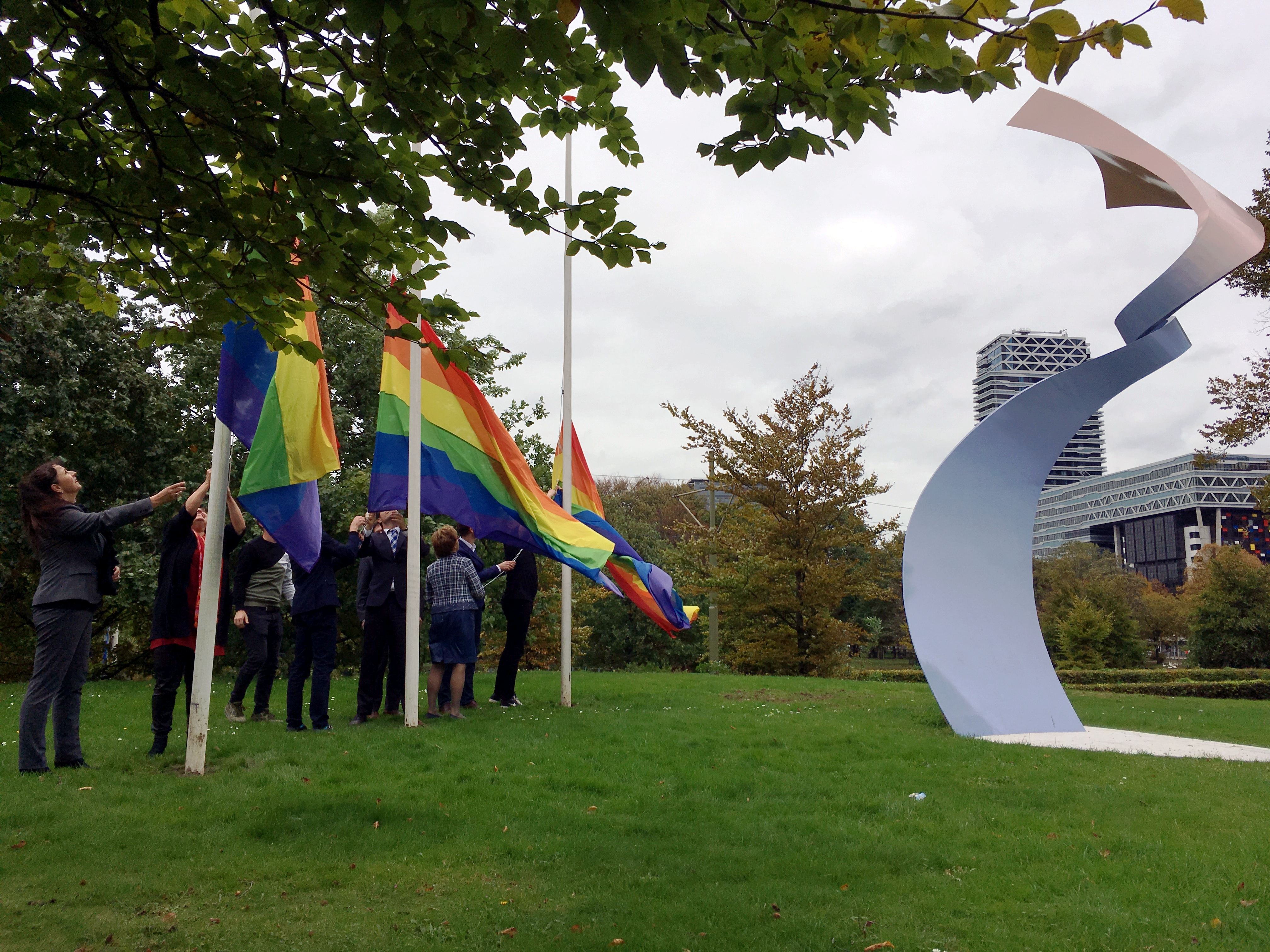 Coming Outday 2017 at the International Homomonument The Hague